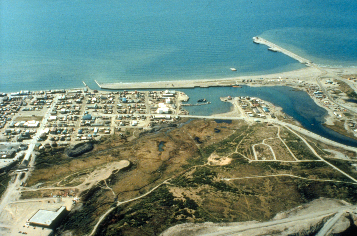 Aerial view of the harbor and jetty at Nome, Alaska.